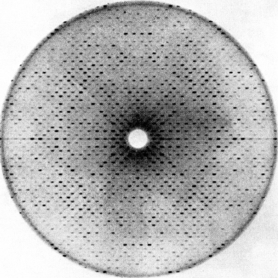 Photographic x-ray diffraction image from a bovine Cu,Zn superoxide dismutase crystal, taken on a precession camera around 1971. Space group C2, resolution out to 2Å.